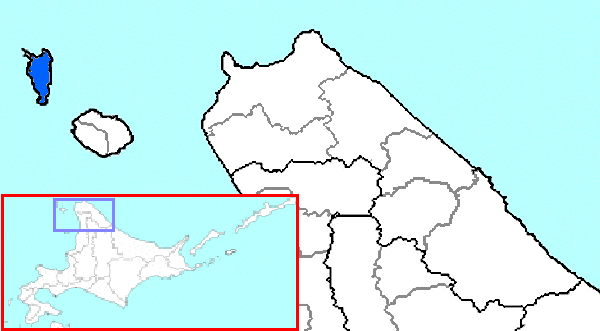 The location of Rebun in Soya Subprefecture, Hokkaido Prefecture, Japan.